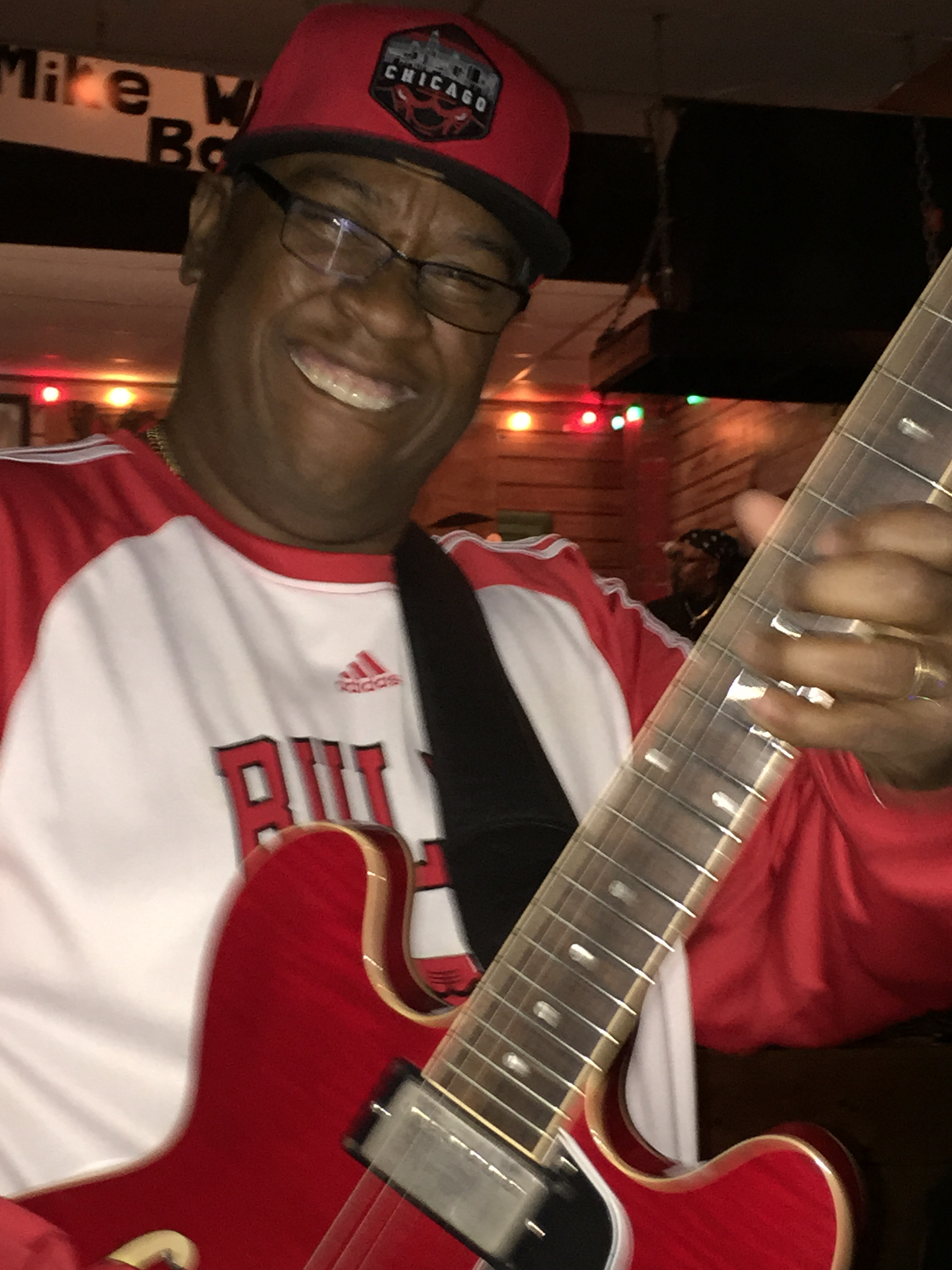 Mike Wheeler performing at the Kingston Mines, Chicago, Illinois on February 11, 2015.